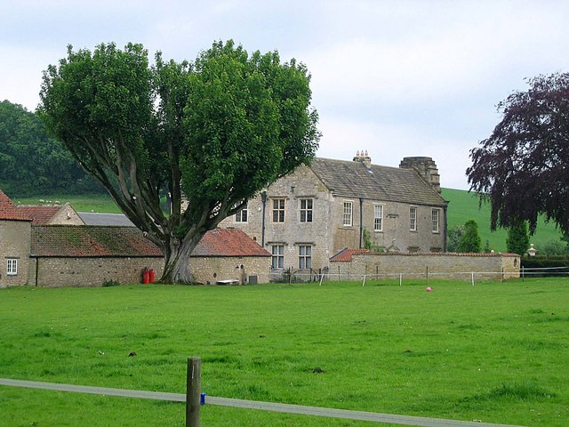 East Newton Hall, Oswaldkirk, North Yorkshire, England.